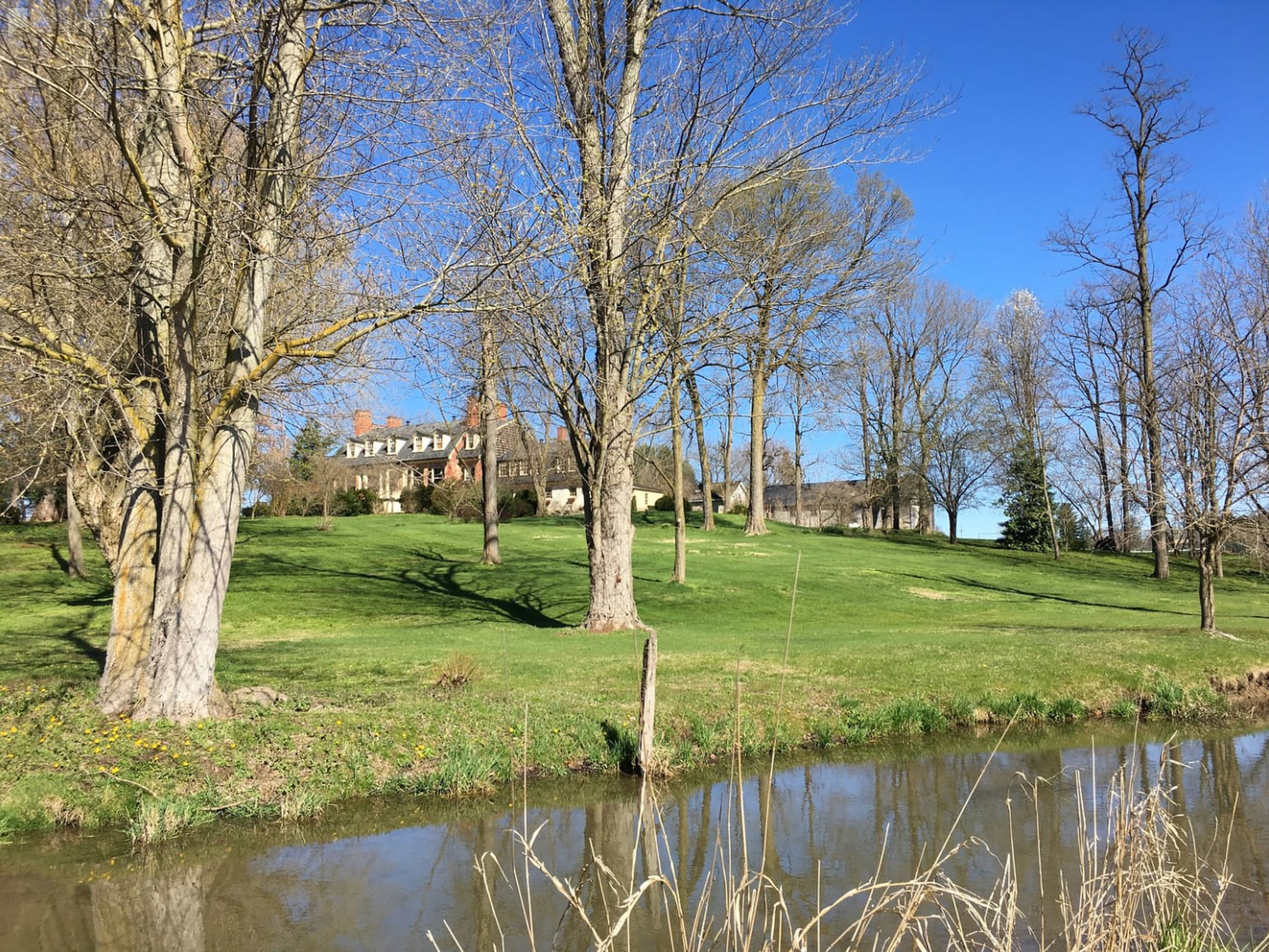 View of Long Meadows from SE corner of property, showing Marsh Run,barn, and smoke house.